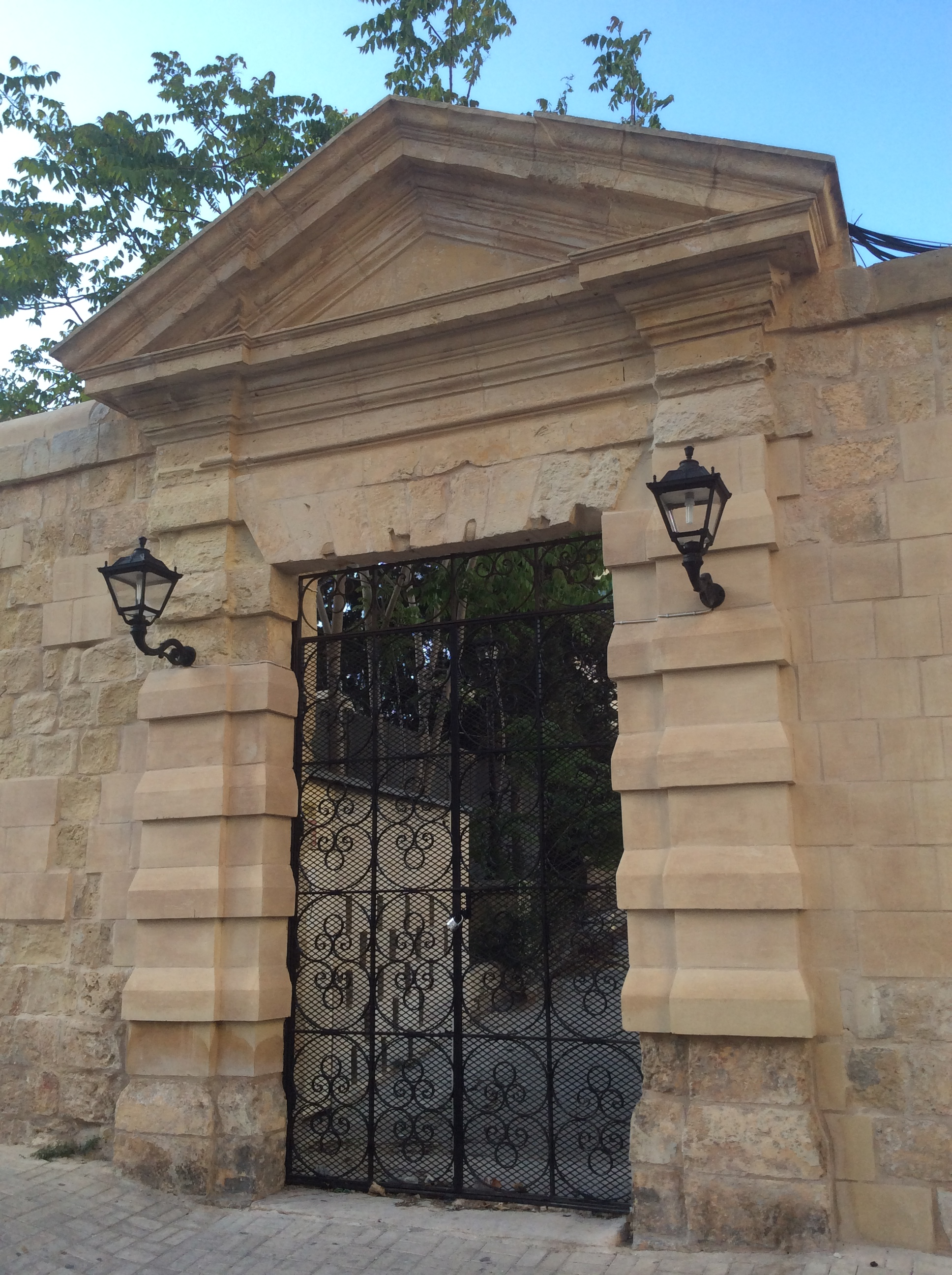 Palazzo Spinola Gate St. Julian's